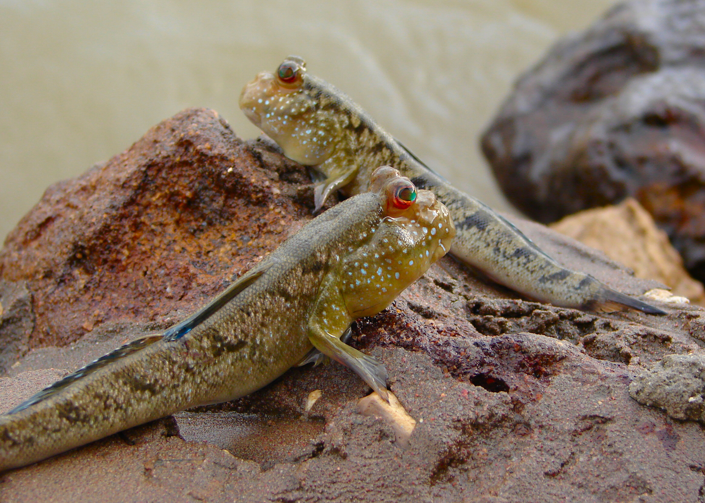 Atlantic mudskippers (Periophthalmus barbarus) photographed on the shore near Tenda-Ba in The Gambia.